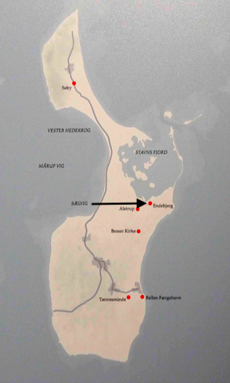 Self-made diagram of map of samso island